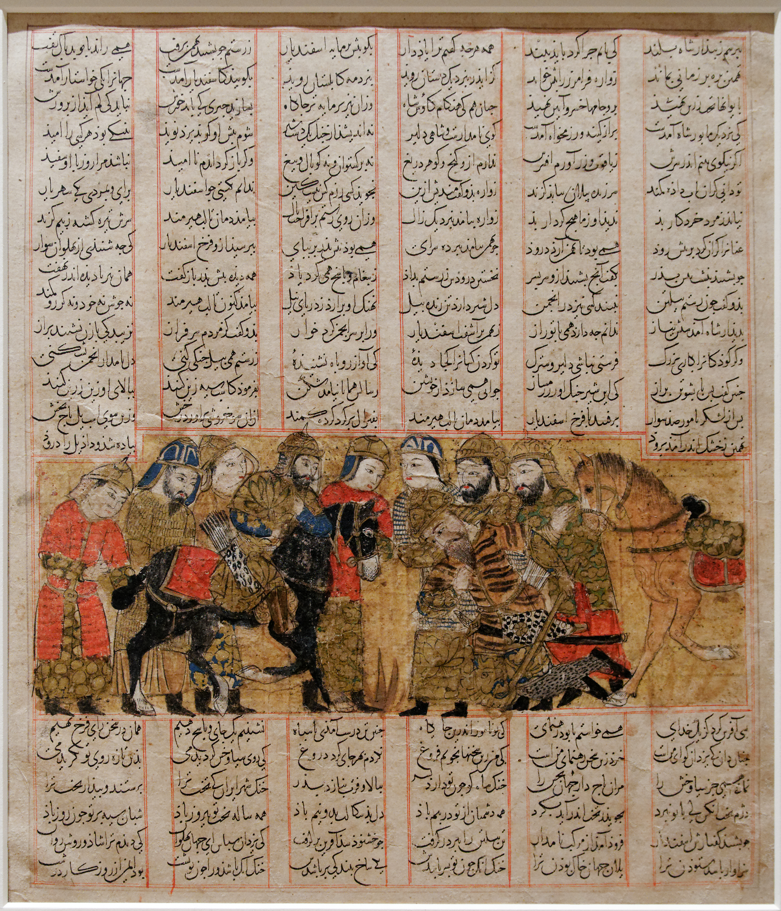 Folio from a manuscript of Firdausi's Shahnameh: Rustam and Esfandiar.